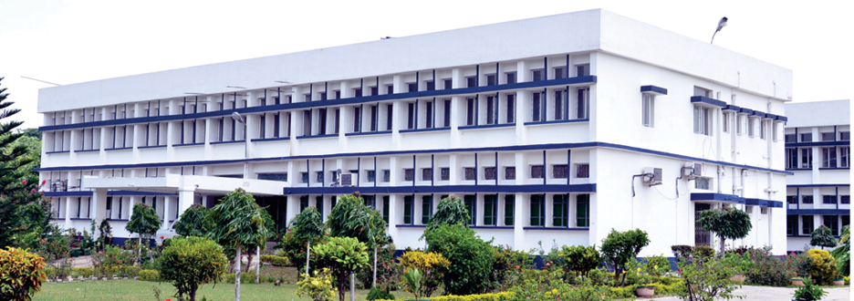 Academic Building, Dr. Rajendra Prasad Central Agriculture University